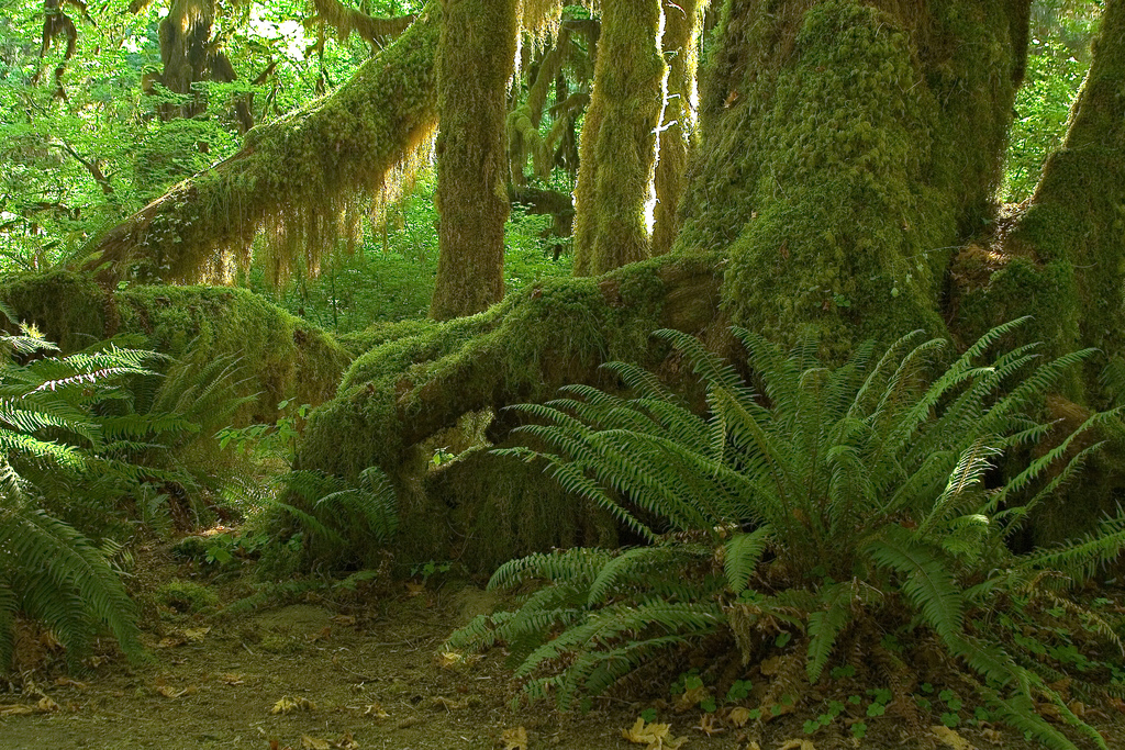 Hoh Valley, Olympic National Park, Oregon, USA